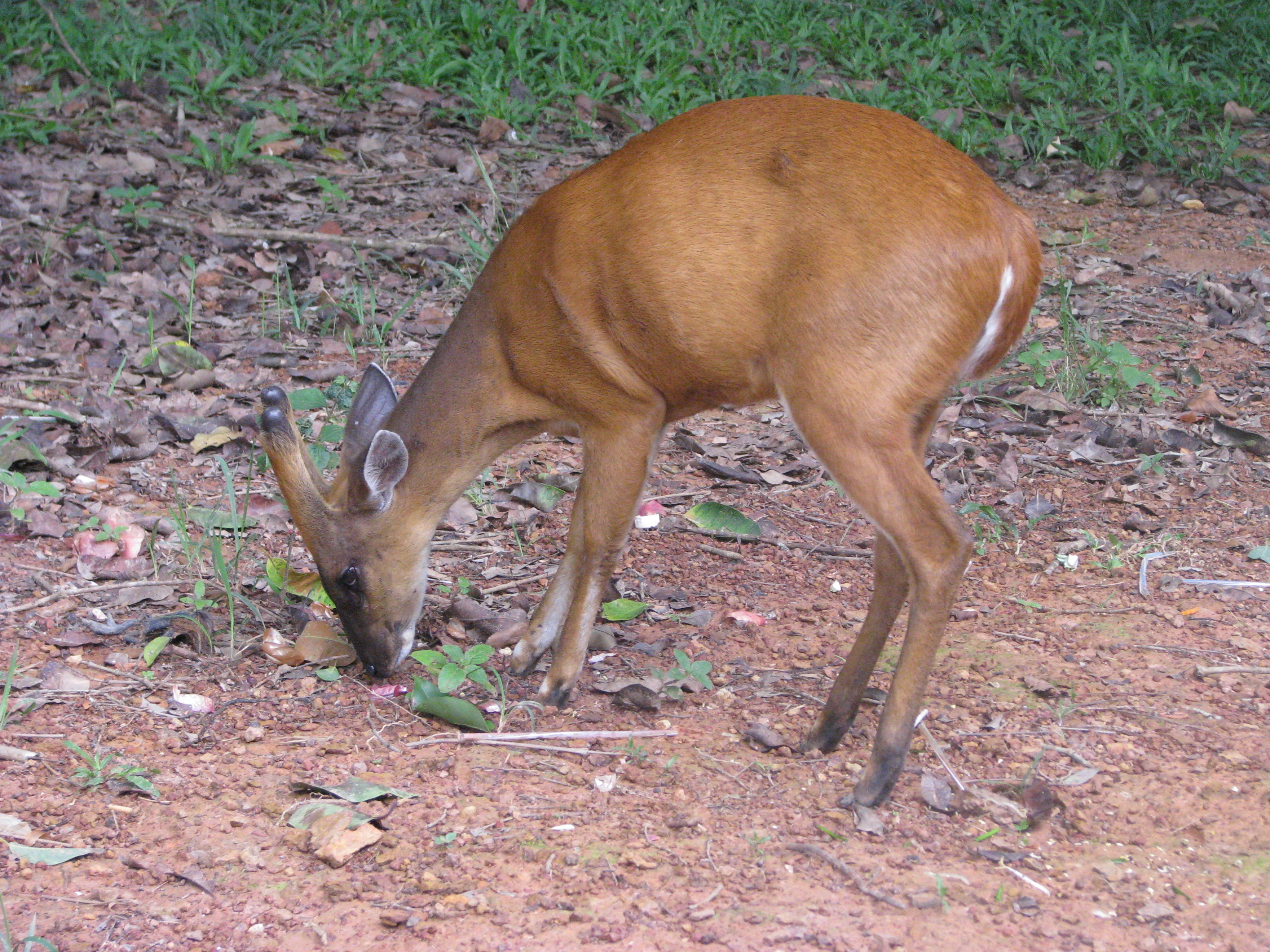 Thanks to Rushen for ID